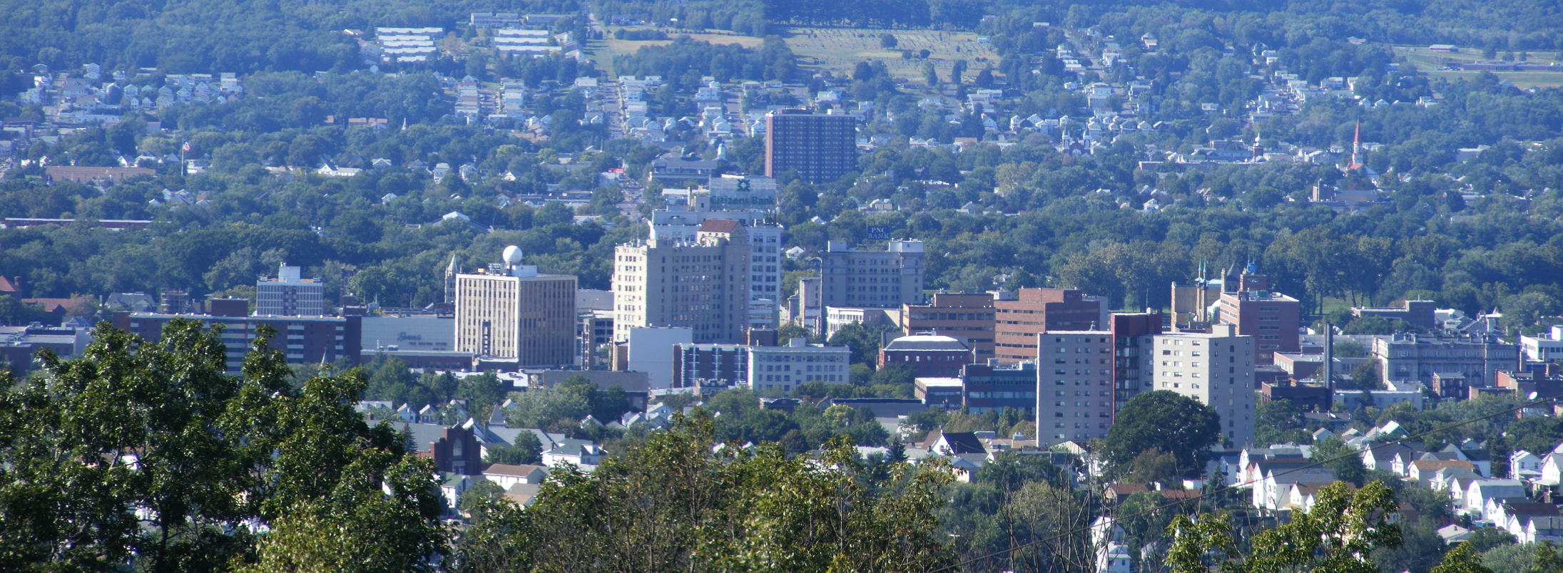 Wilkes-Barre downtown panorama from Laurel Run